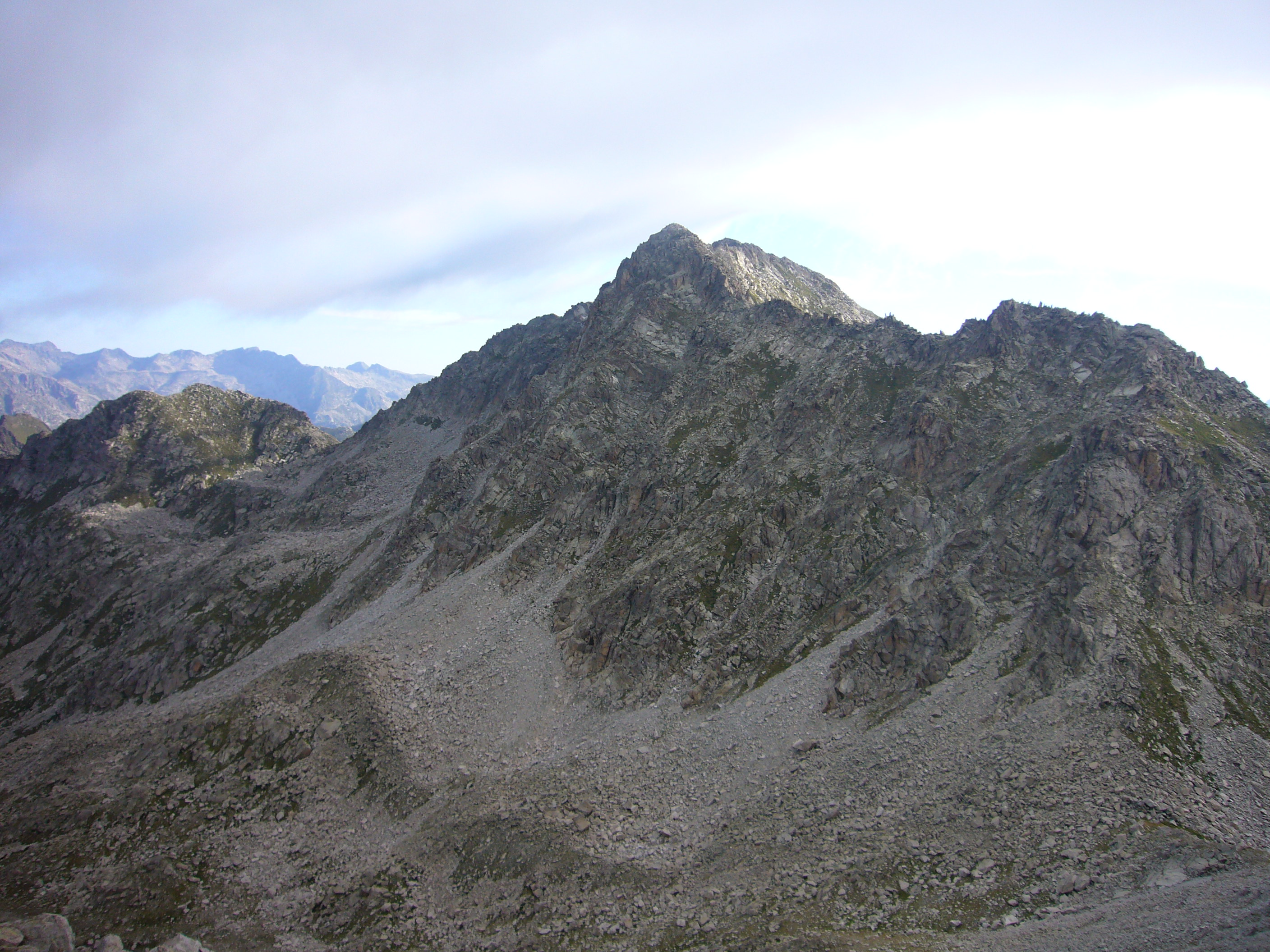 Pic Gran del Pessó i Pic del Pessó, la Vall de Boí, Alta Ribagorça, Catalonia